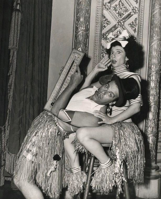 Billy De Wolfe and Anne Triola in Lullaby of Broadway (1951) - publicity still (cropped)